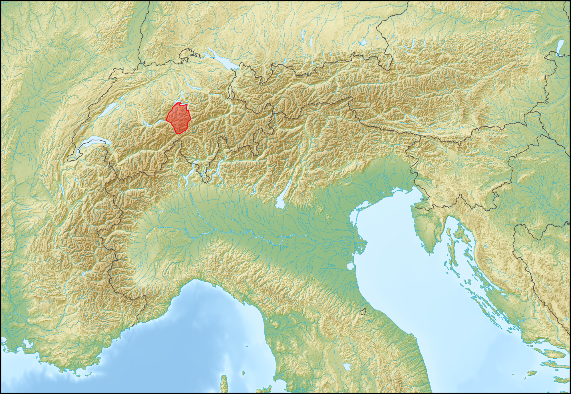 The location of the Uri Alps (red) in the Alps